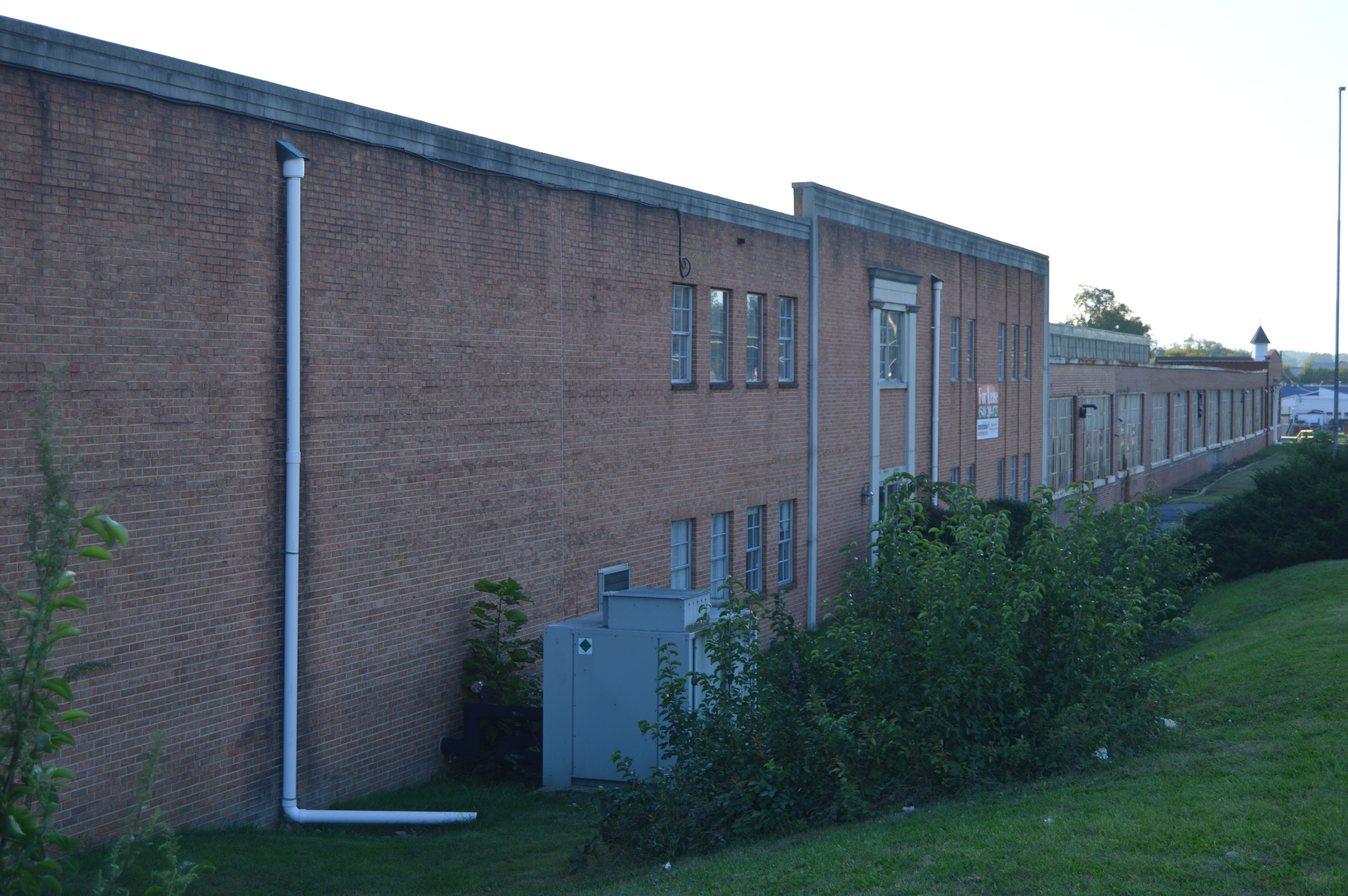 Front and southern side of the main factory building in the Virginia Metalcrafters Historic District, located at 1010 E. Main Street (U.S. Route 250) in Waynesboro, Virginia, United States. Built in 1925, it is listed on the National Register of Historic Places with the rest of the historic district.